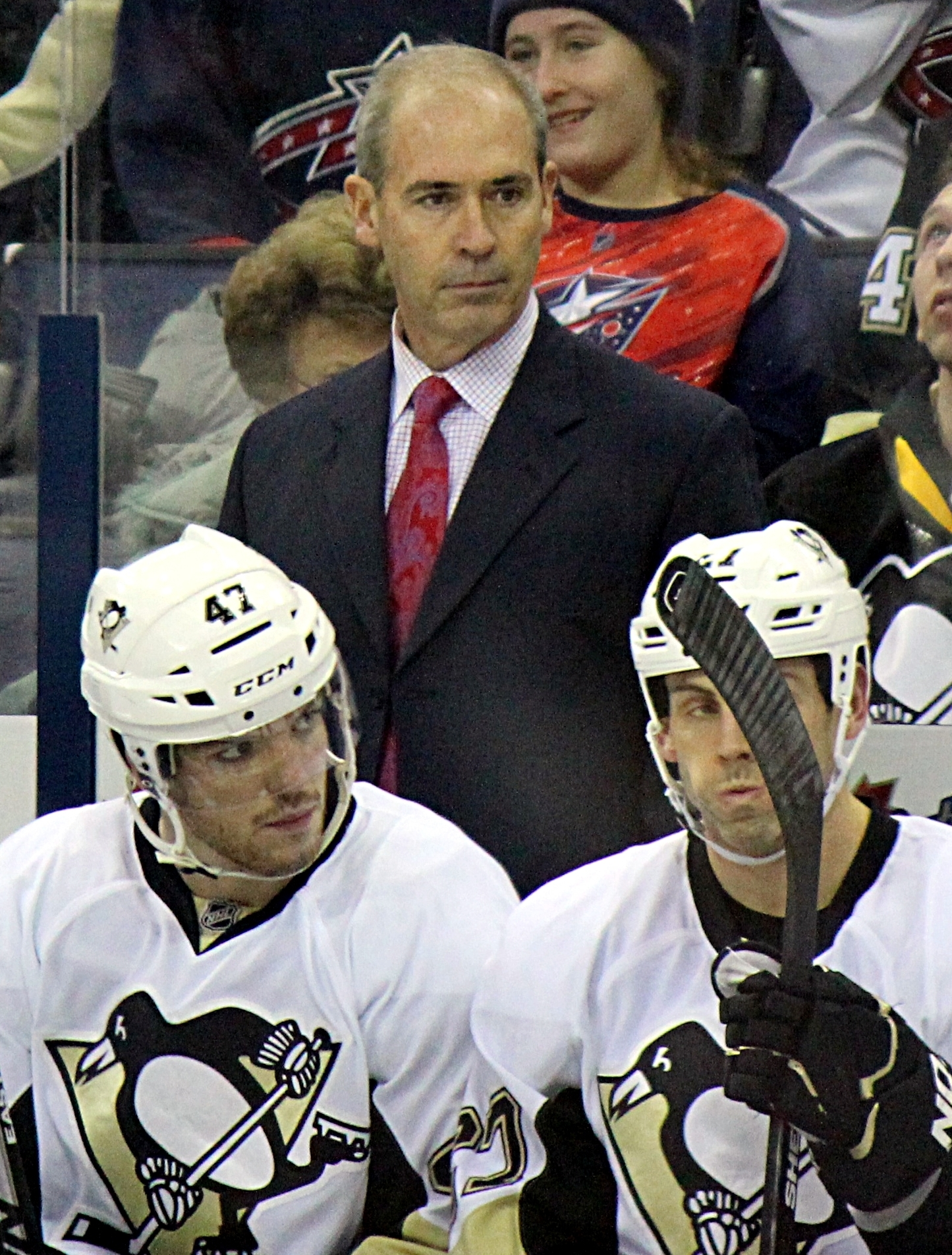 Pittsburgh Penguins assistant coach Gary Agnew during a game against the Columbus Blue Jackets, December 13, 2014, at Nationwide Arena in Columbus, OH.